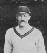 Photograph of PW Sherwell dated from 1906-11 (his Test playing career)